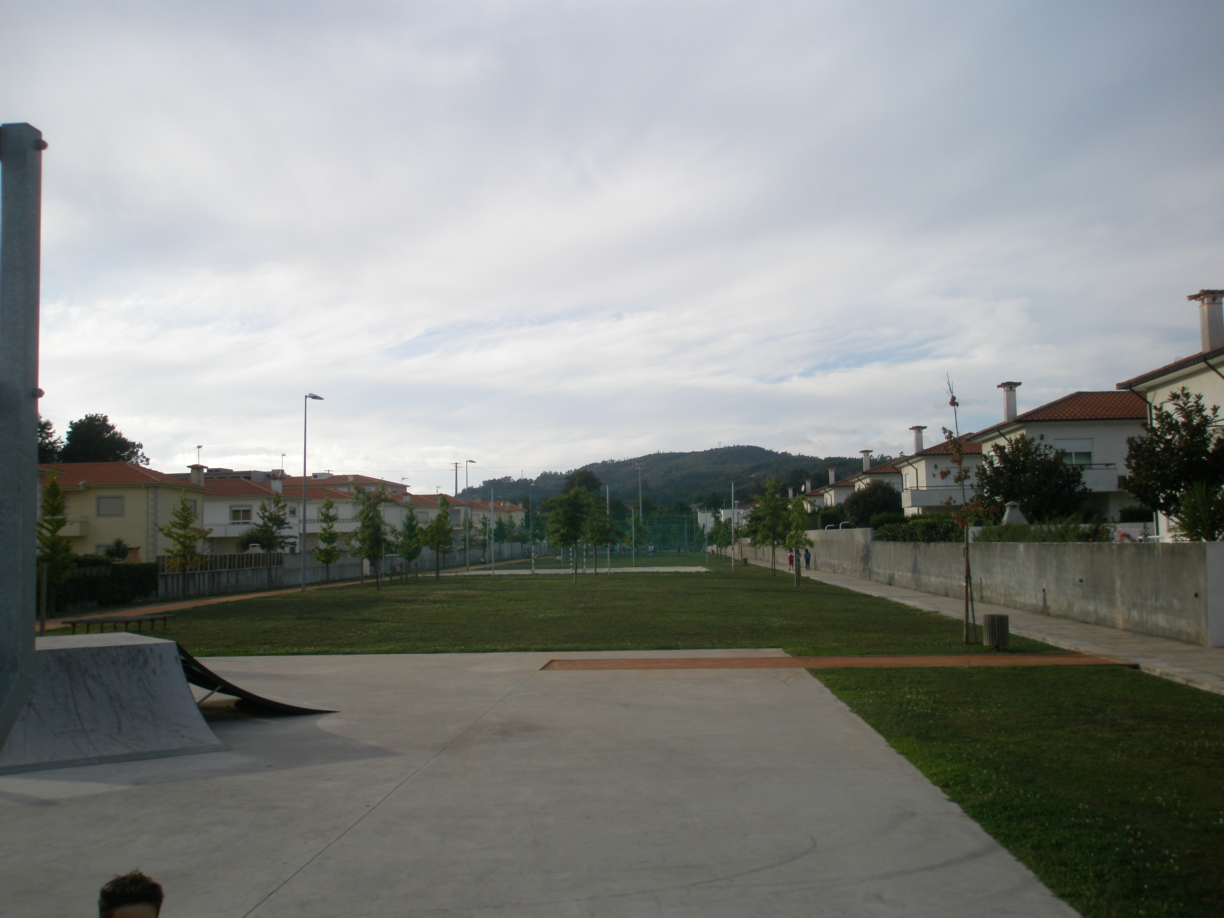 Brito's park